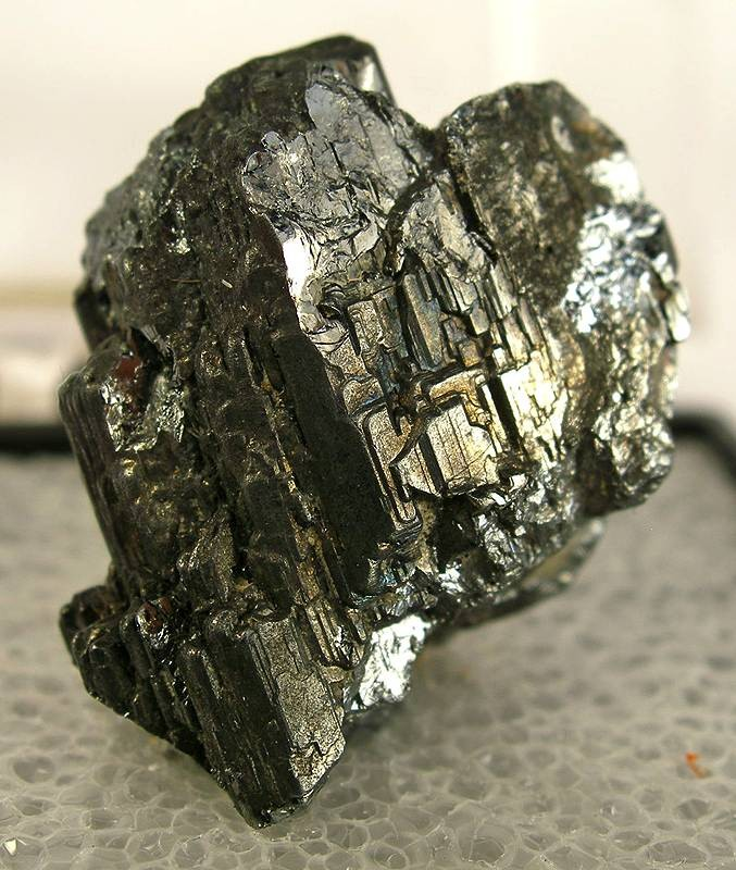 Baumhauerite Locality: Lengenbach Quarry, Im Feld (Imfeld; Feld; Fäld), Binn Valley, Wallis (Valais), Switzerland (Locality at ) Size: 2.0 x 1.7 x 1.0 cm. A large single crystal of this rare lead arsenic sulfide, from the type locality. Ex. Carlton Davis Collection.